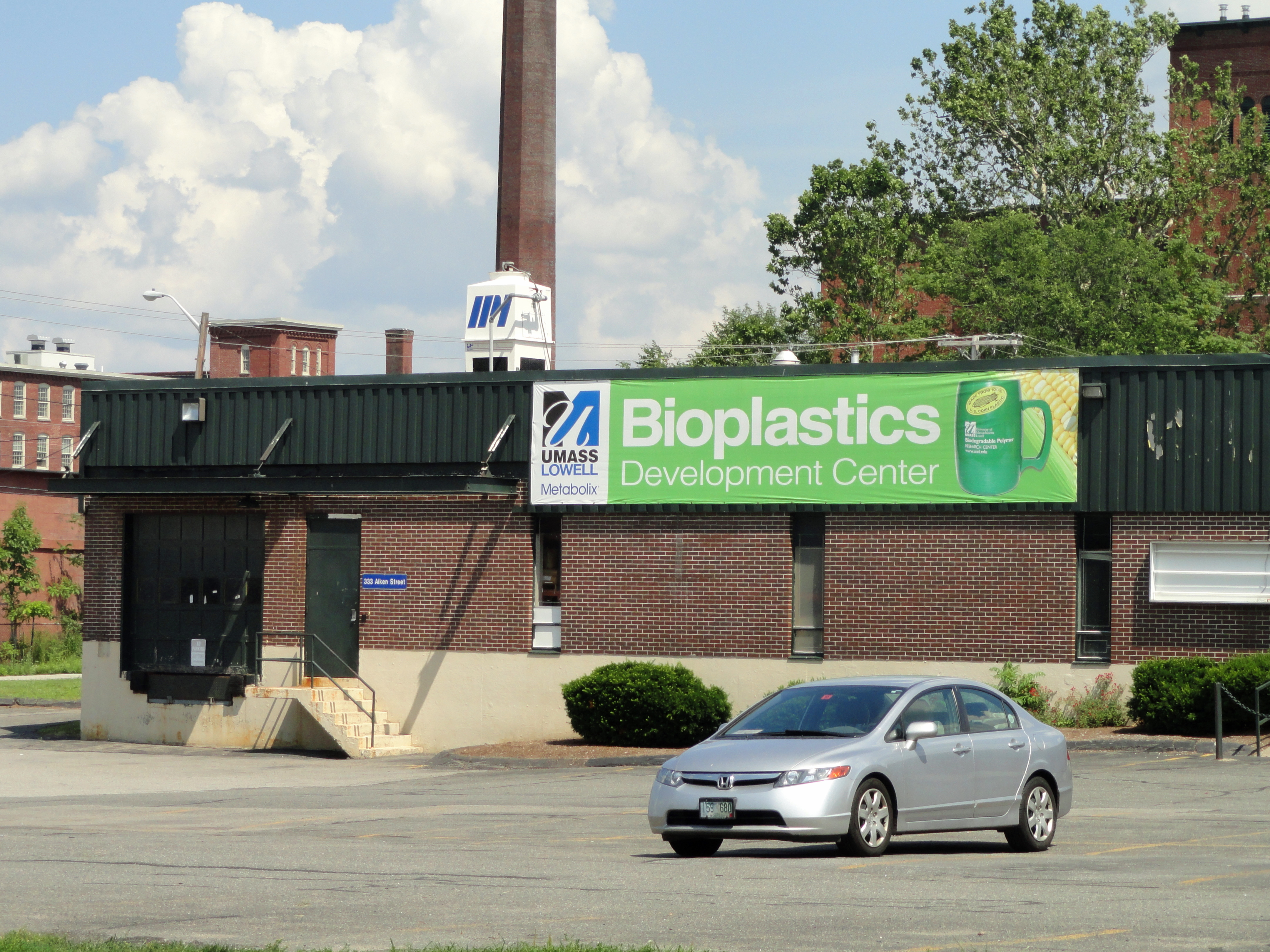 View of University of Massachusetts Lowell, Lowell, Massachusetts, USA.